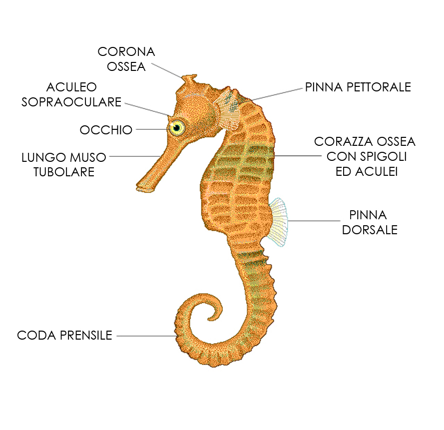 Seahorse anatomy - ita vers.